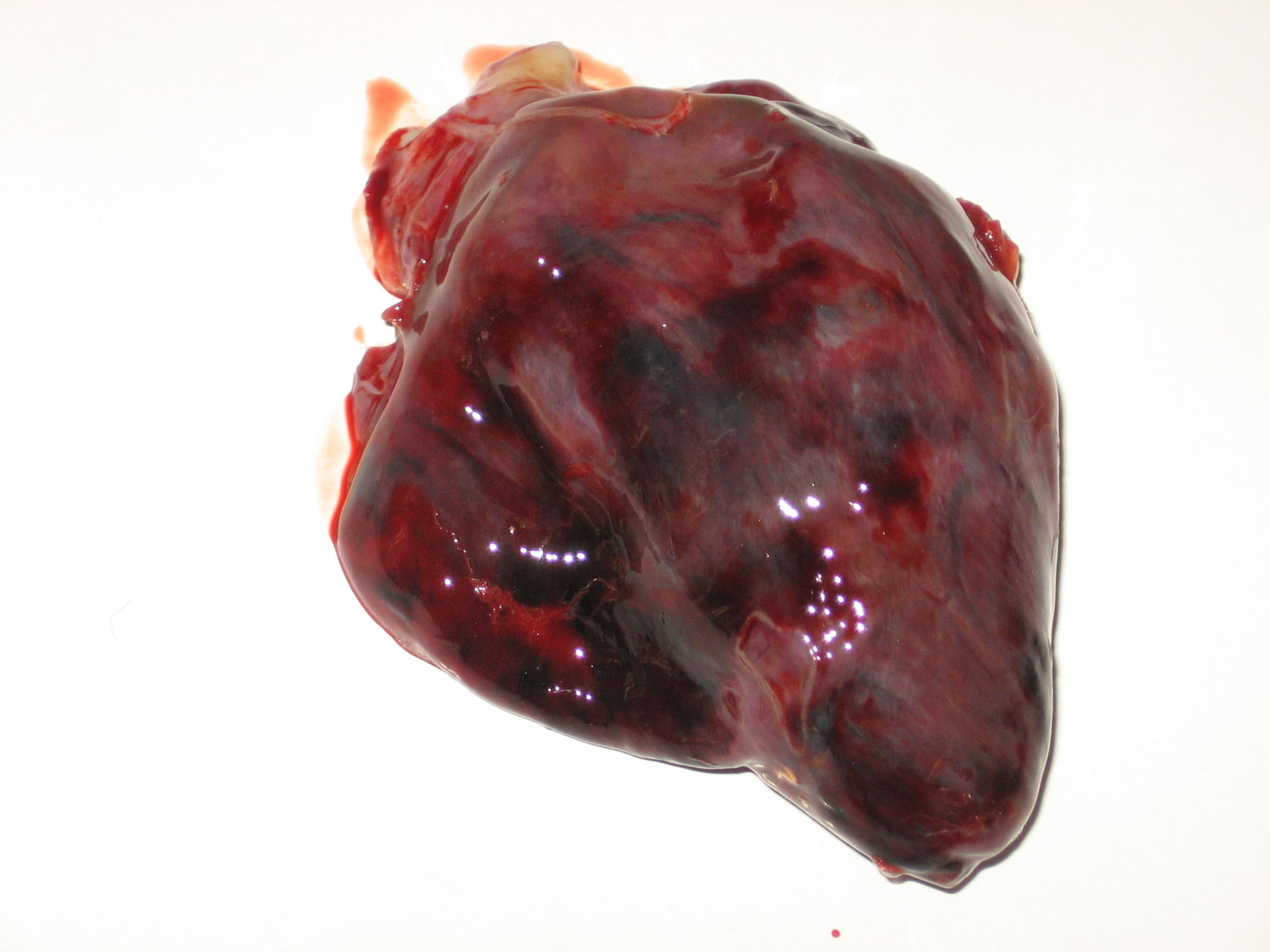 Myocarditis of swan heart